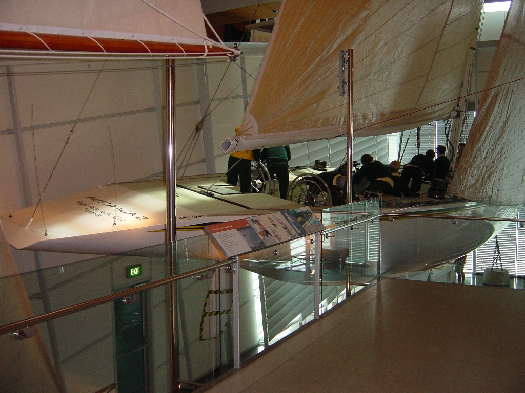 Australia II as seen in the WA Maritime Museum